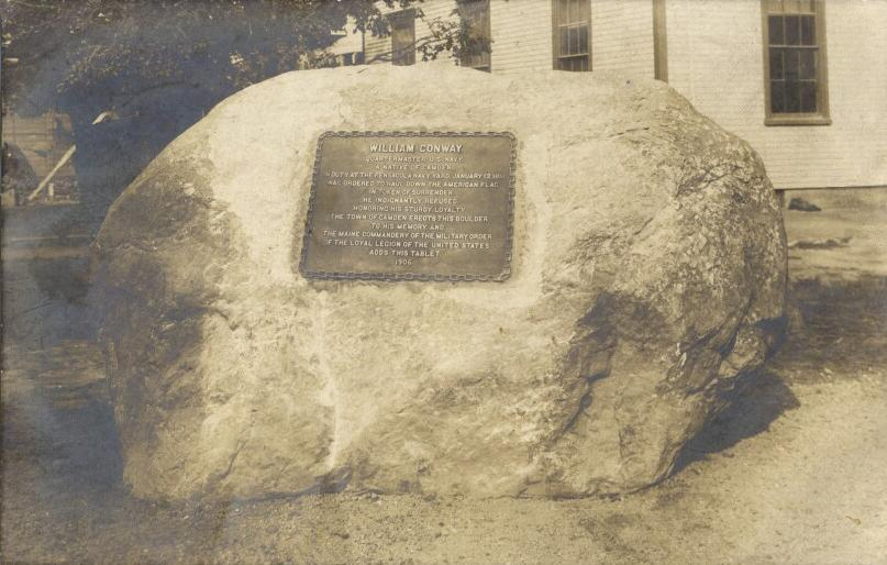 Quartermaster William Conway Monument, Camden, ME; from a c. 1910 postcard. Located at the corner of Elm and School (now Union) streets, the commemorative boulder was unveiled in 1906.